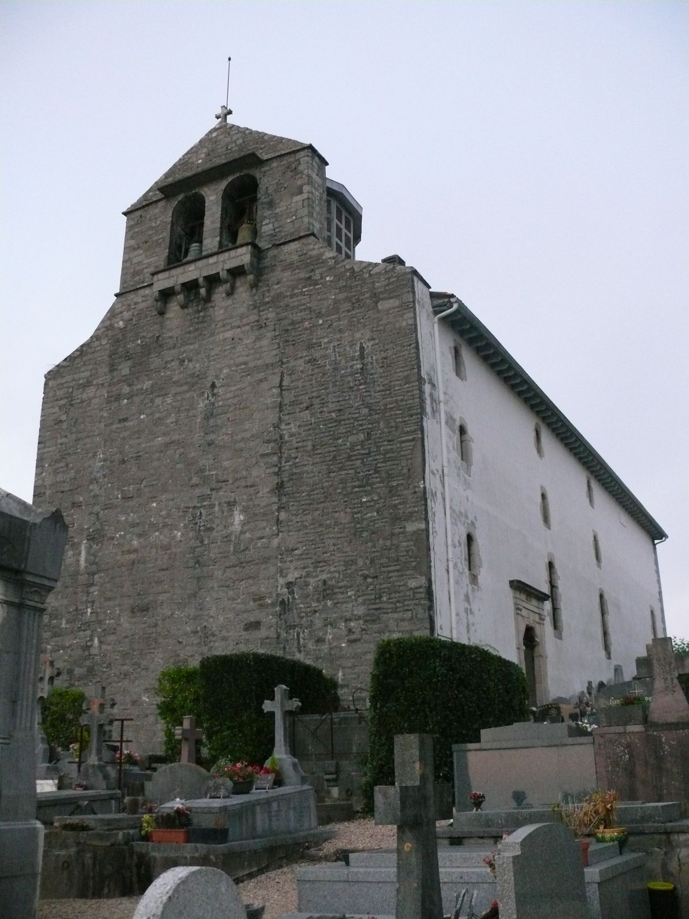 Saint-Nicolas' church of Guéthary (Pyrénées-Atlantiques, Aquitaine, France).